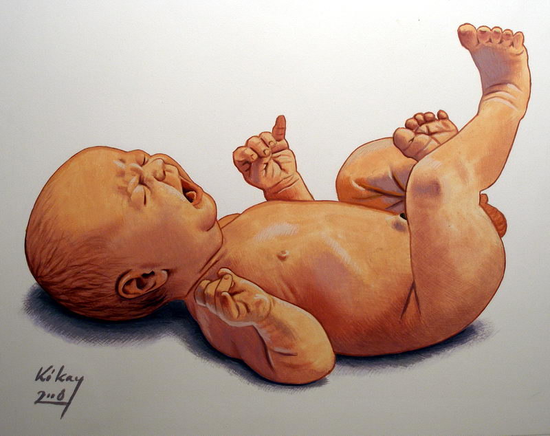 Newborn son